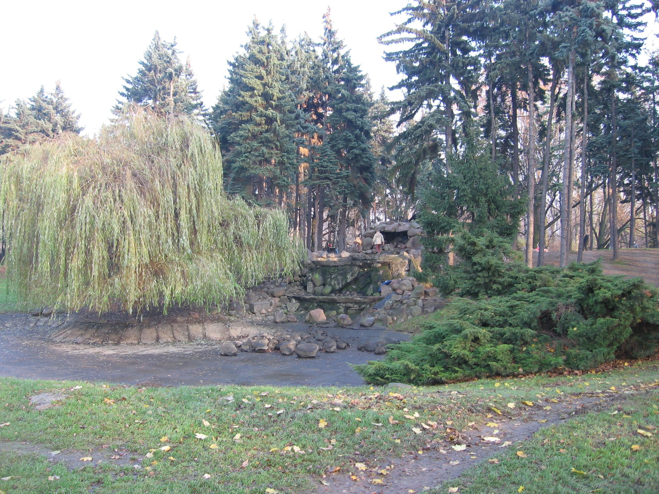 Artificial waterfall (winter), Skaryszewski Park, Warsaw, Poland